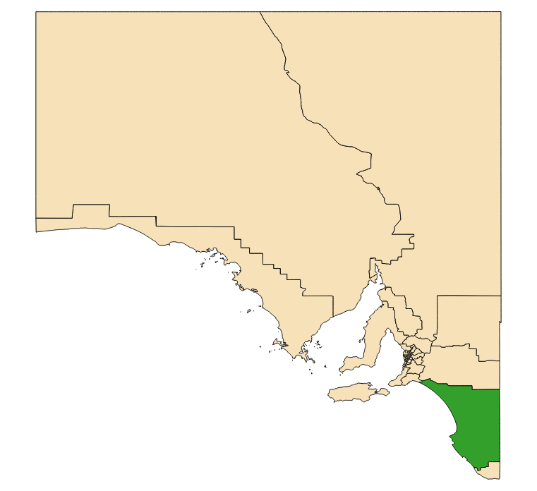 Electoral district 2018 boundaries shown in green